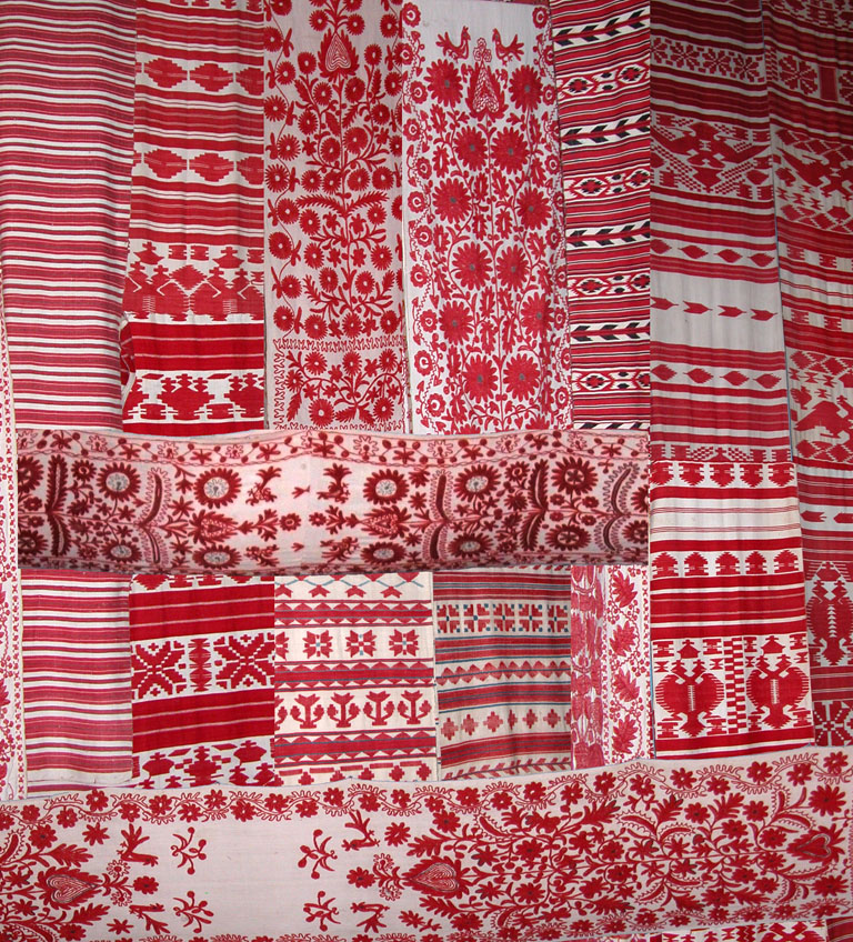 Rushnyk - Ukraine embroidered decorative towels. Pereyaslav-Hmelnytsky, Ukraine.